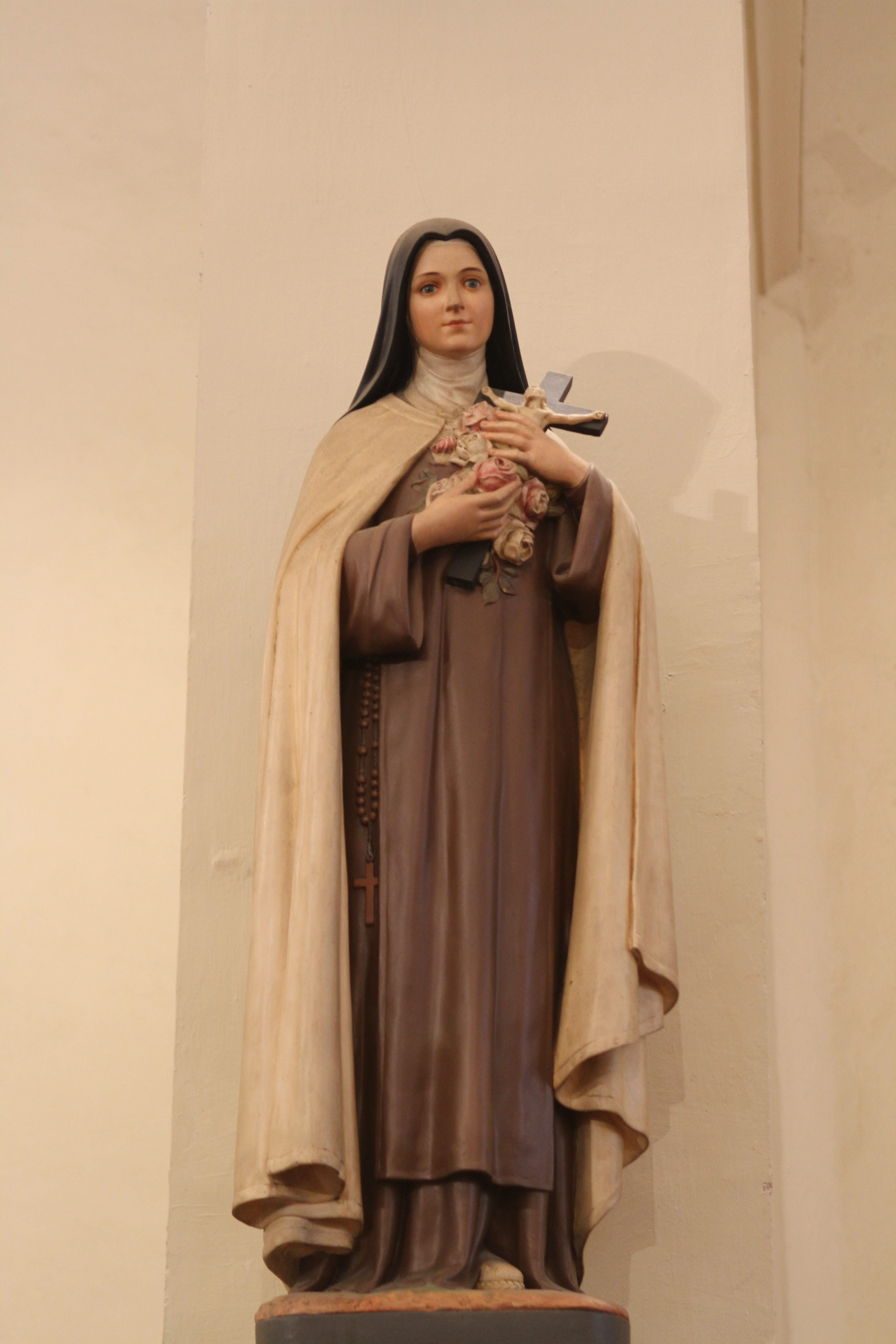 Church of Saint-Jean-du-Gard (Gard, France).